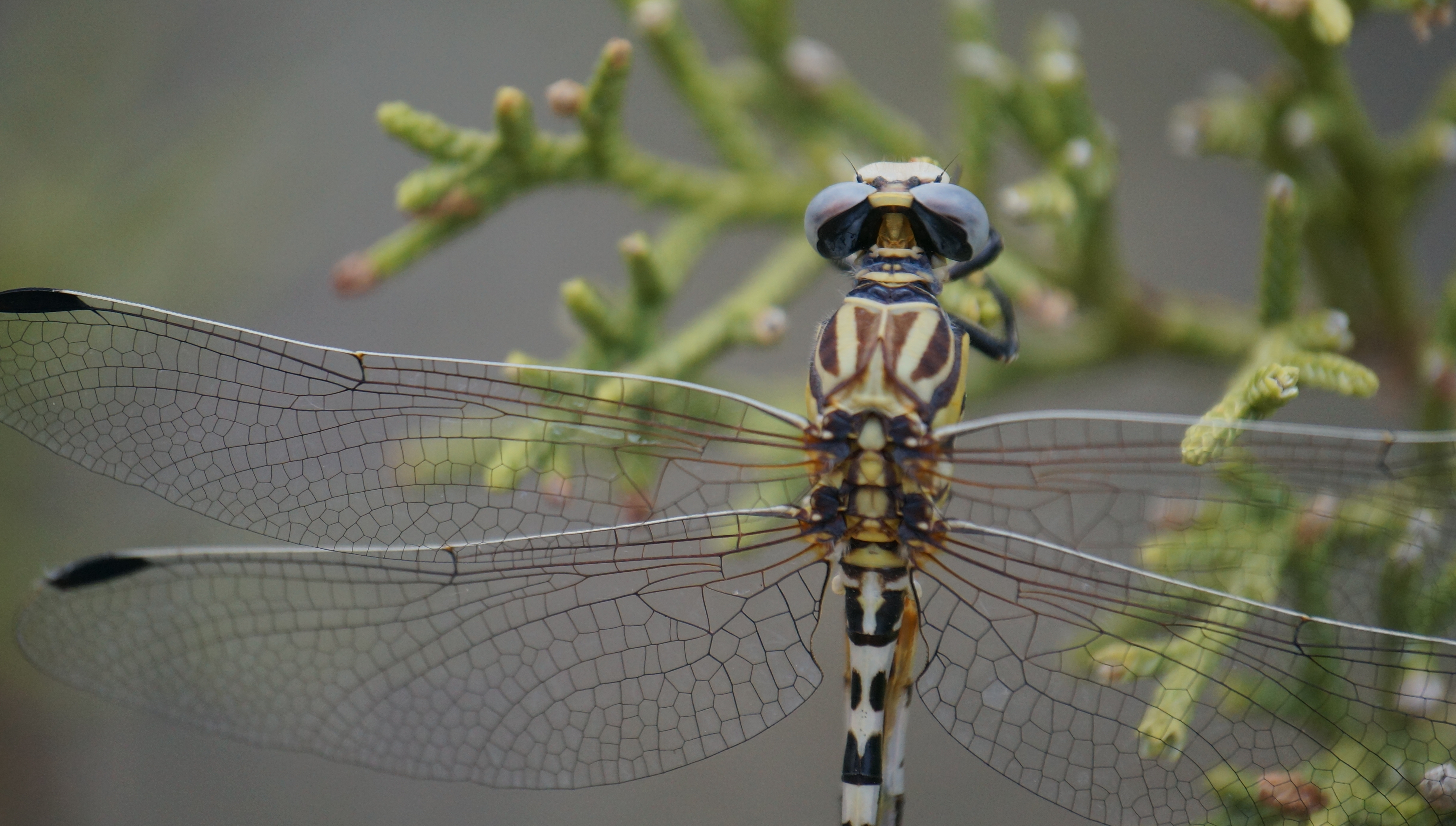 Male White-belted Ringtail